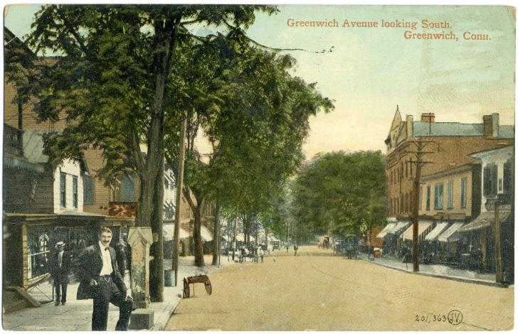 Postcard: Greenwich Avenue, Greenwich, Connecticut, 1910 postmark Caption on front: "Greenwich Avenue, looking South,/ Greenwich, Conn." On lower right corner of front: "201,363 JV" with "JV" in a circle Web page shows opposite side of postcard with postmark dated May 3, 1910 On opposite side of postcard, along left side: "For Globe Art Co., Stamford, Conn. / Printed in Great Britain" On opposite side of postcard, top of middle, above line separating address from message sides: A double-circle (hemispheres) map of he world with "Valentine's" above it, "Througholt" printed across it and "Famous" just above the intersection of the two circles and "World" just below that intersection.